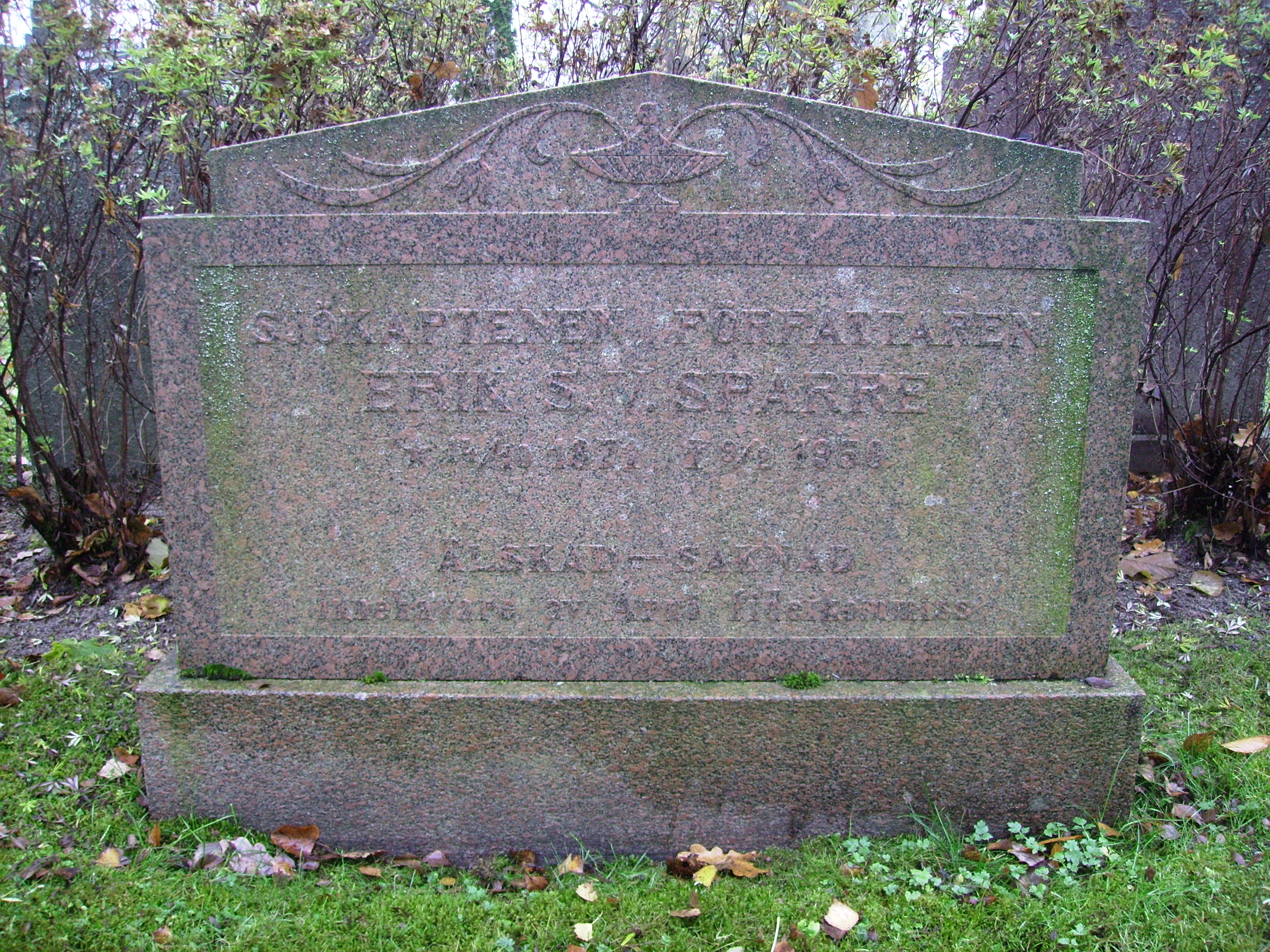 Picture of Erik Sixten Viktor Sparre's grave at Västra kyrkogården in Nyköping